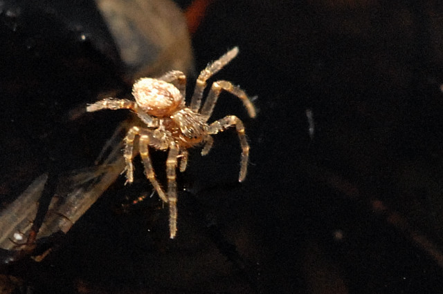 Thanatus striatus from Commanster, Belgian High Ardennes .